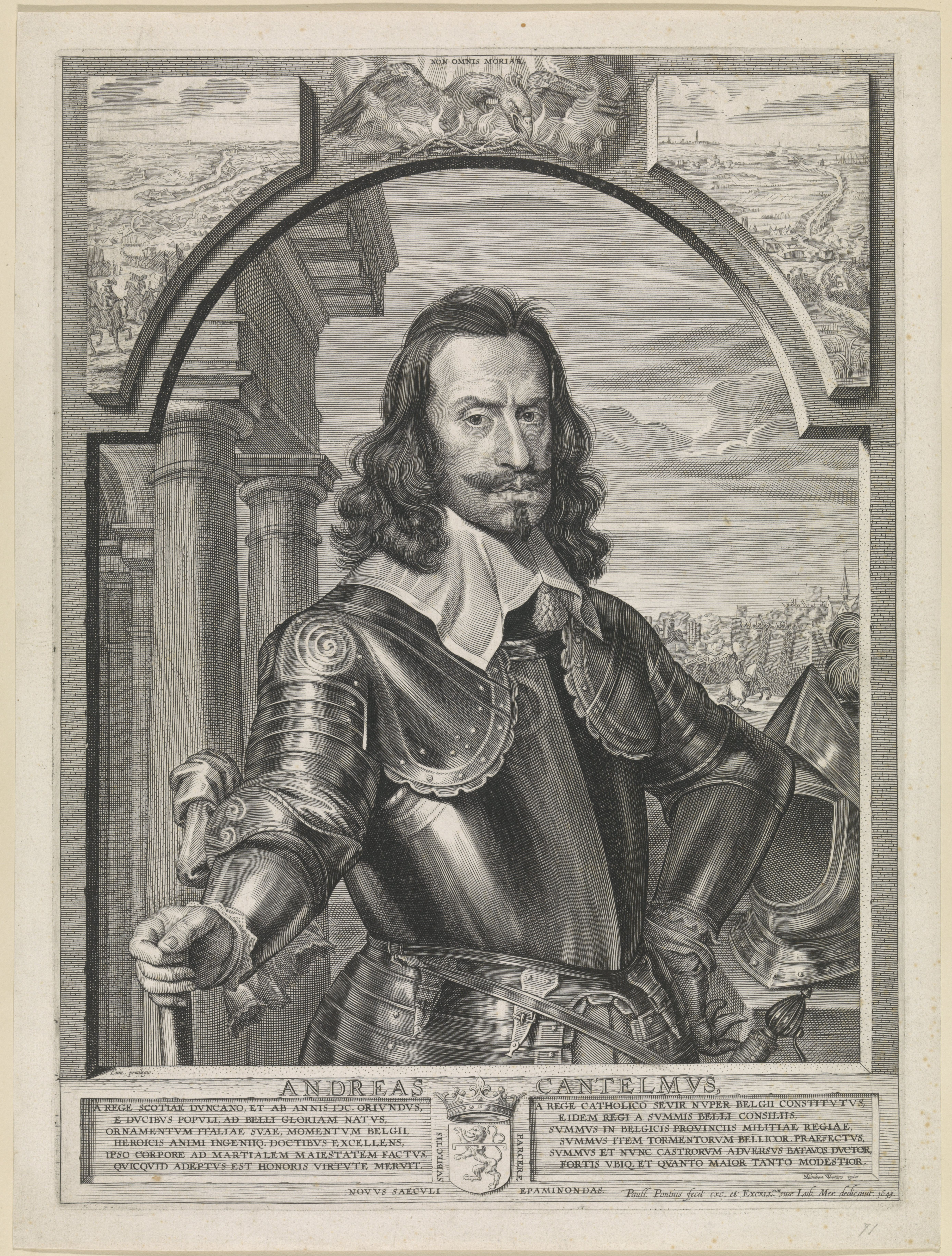 Engraved portrait of Andreas Cantelmo by Paulus Pontius after Michaelina Woutiers (1643)